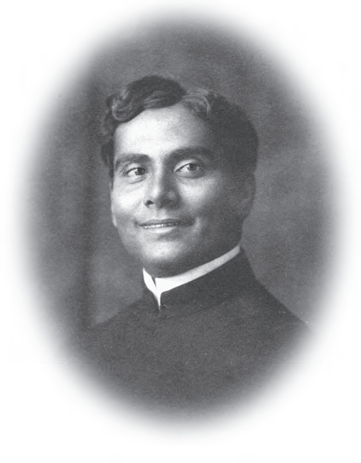 Swami Abhedananda, a direct disciple of Ramakrishna Paramahamsa